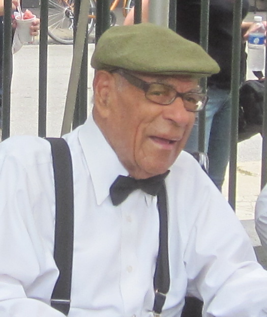 101 year old trumpeter Lionel Ferbos, before going on stage with the New Orleans Ragtime Orchestra at Satchmo SummerFest 2012.